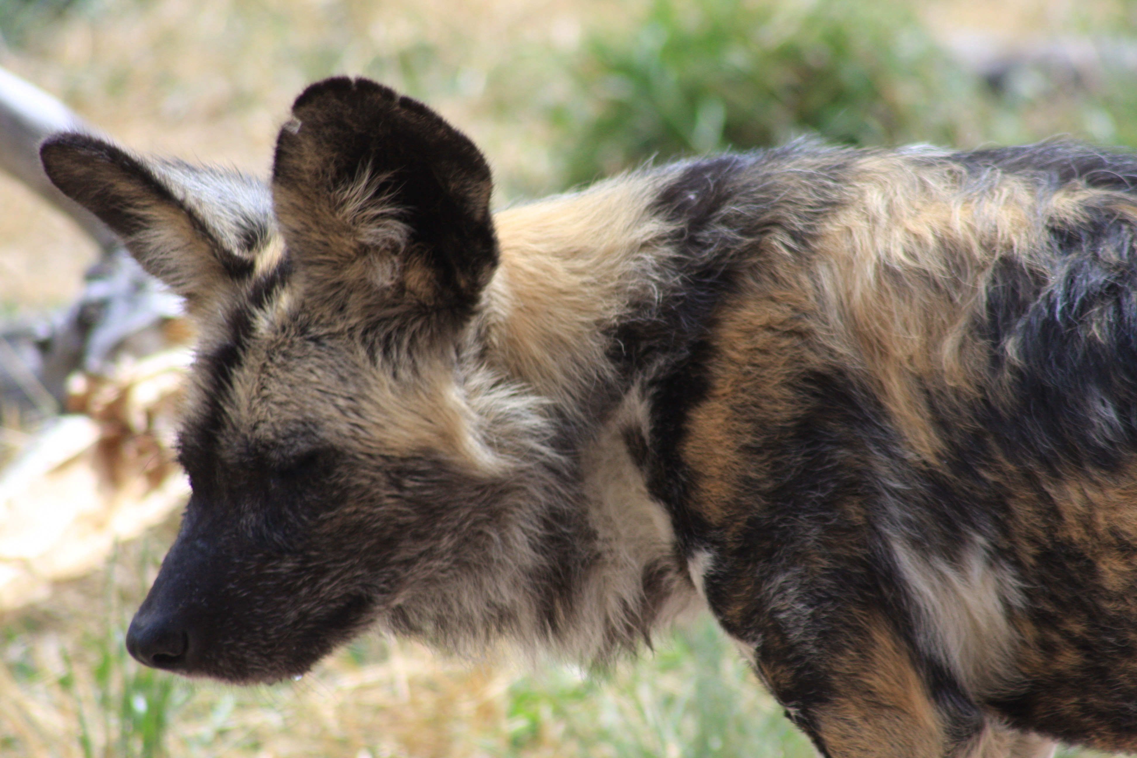 An African Wild Dog at Denver Zoo, Colorado, USA.